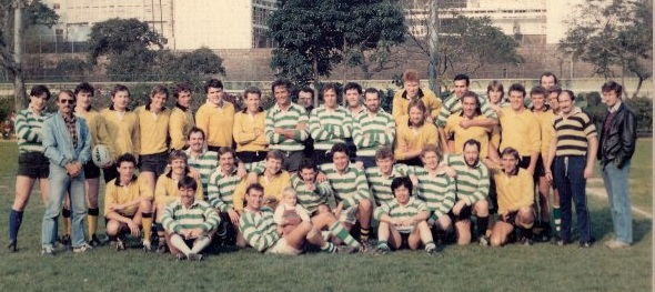 Valley RFC closeup-1988